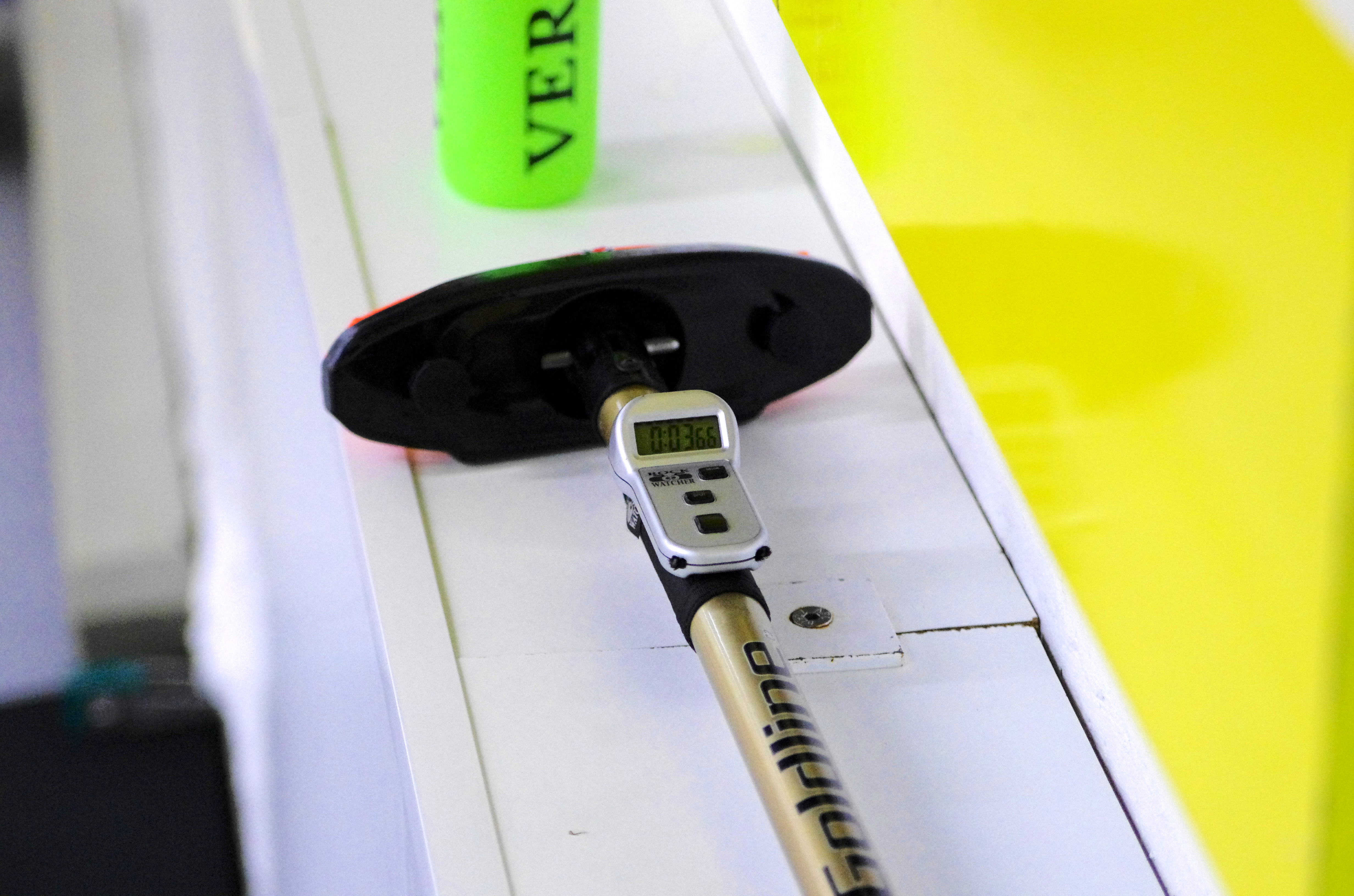 Swisscurling League 2012/2013 - Round 2 - Geneva